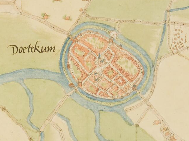 Doetinchem (Netherlands) mapped by Jacob van Deventer 1559-1575